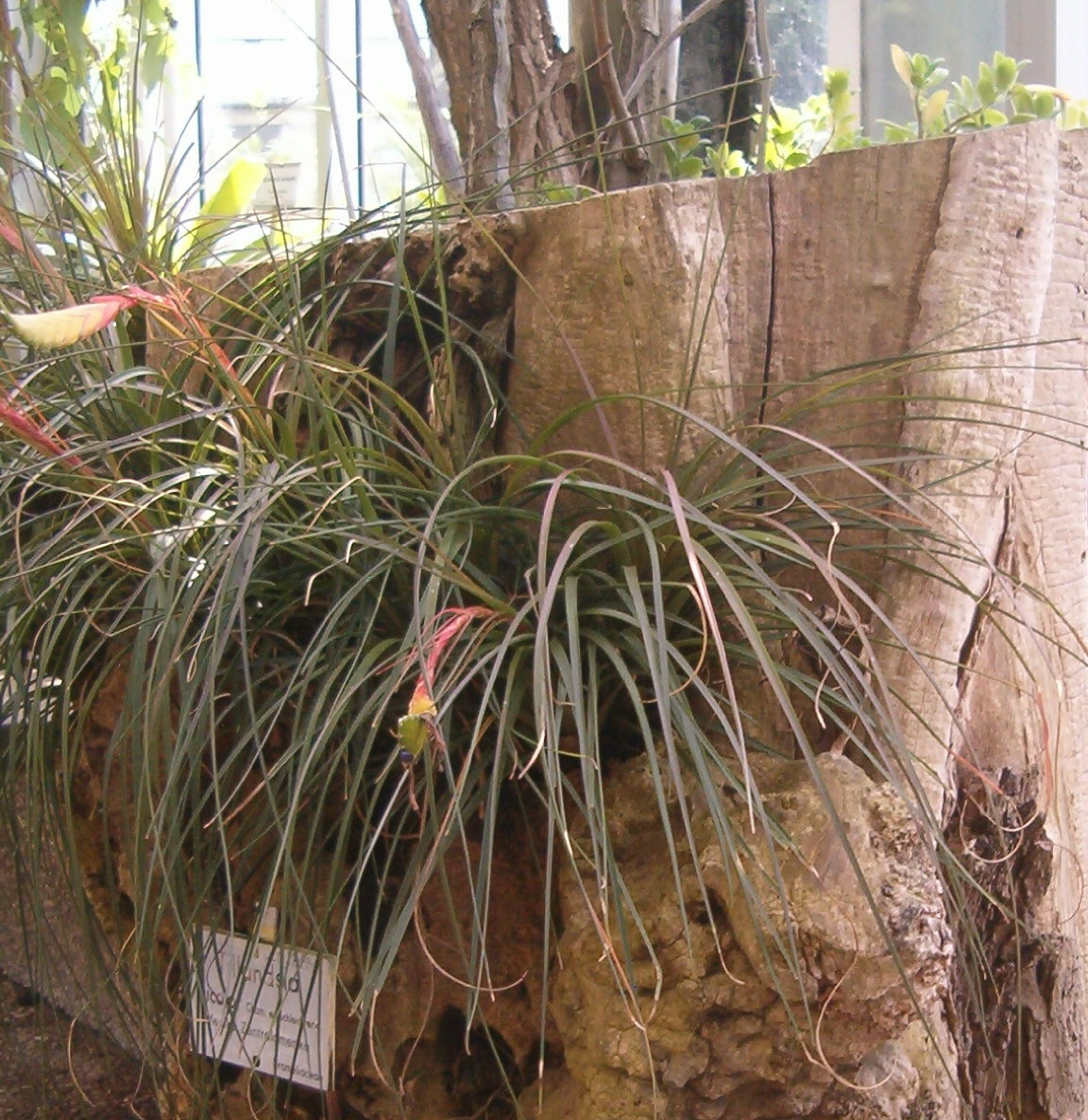 At Botanical Gardens Berlin-Dahlem Species Tillandsia tricolor